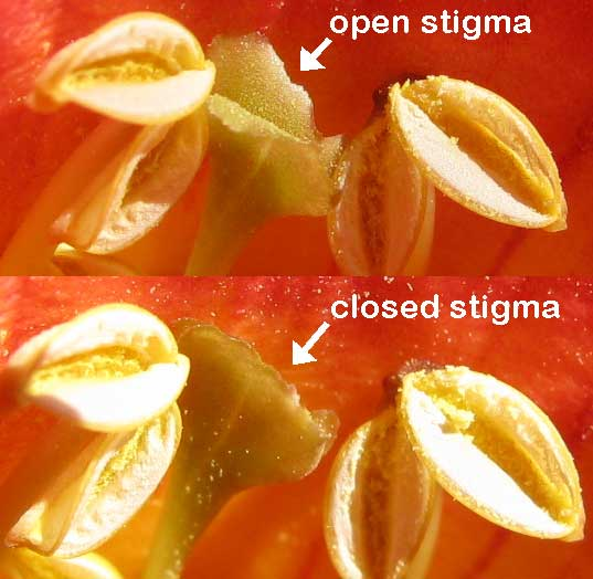 The Trumpet Vine's stigmas are touch-sensitive. They close immediately after being touched.